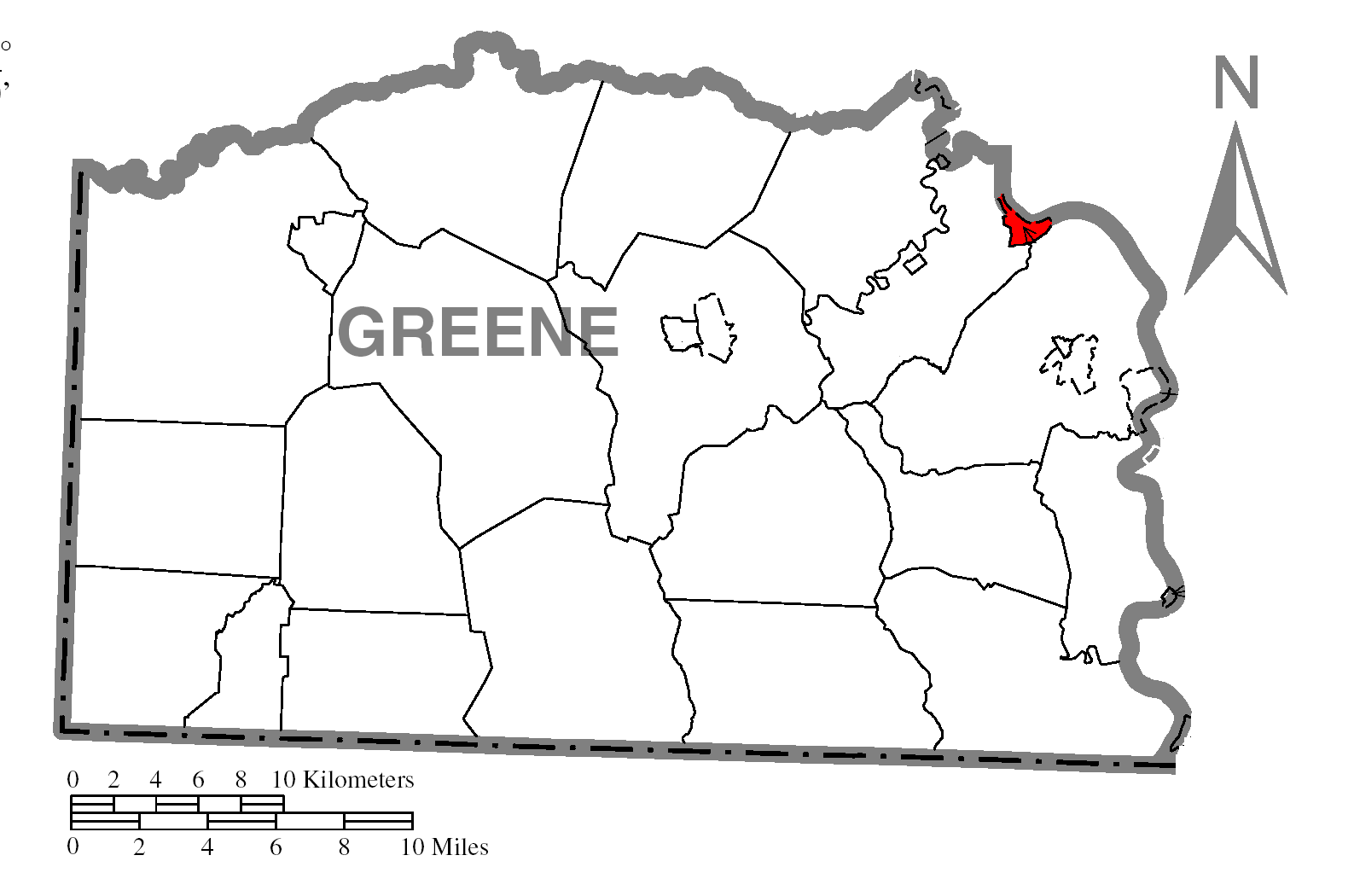 Map of Greene County higlighting Rices Landing.